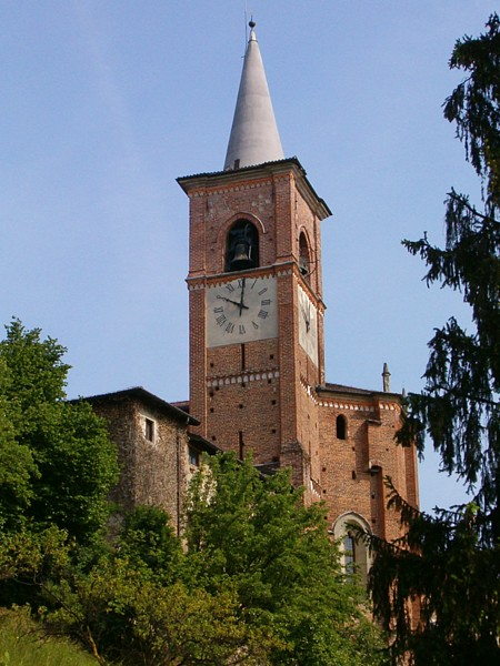 La Collegiata in Castiglione Olona Picture taken by user:Idéfix, august 2004